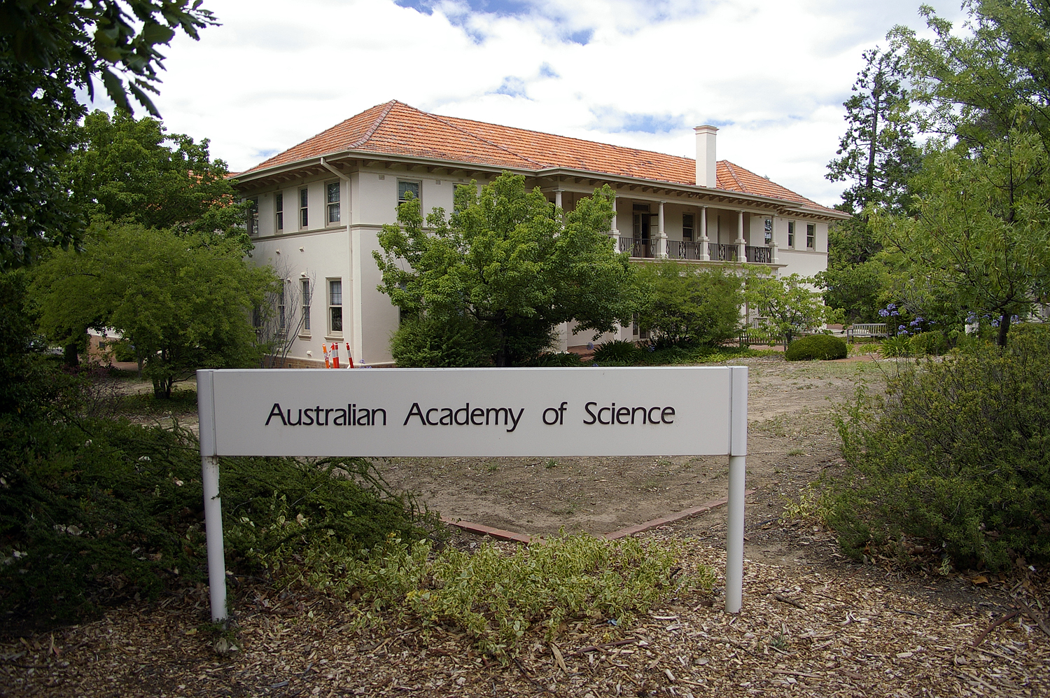 Australian Academy of Science - Ian Potter House in Canberra, Australian Capital Territory